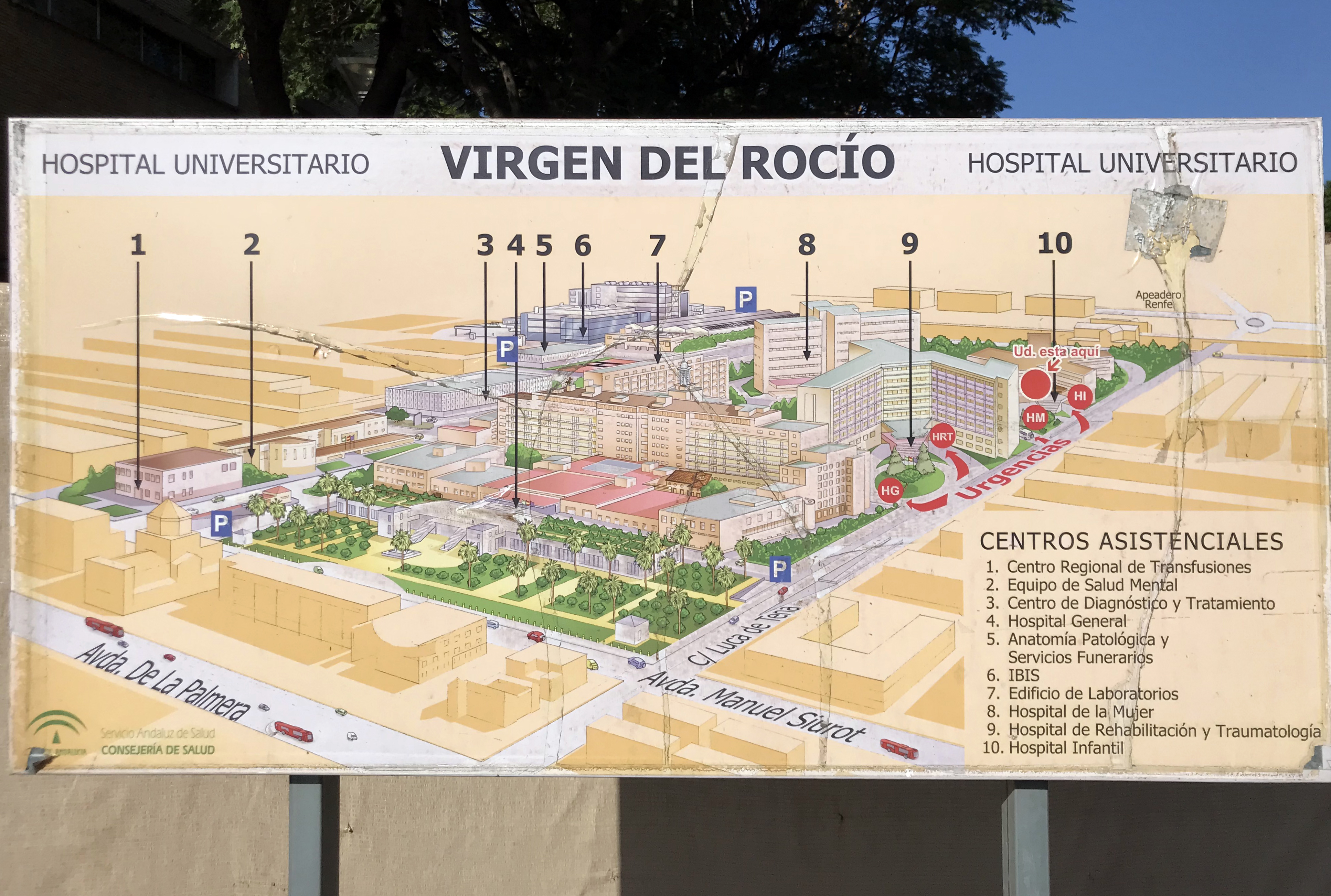 Site plan of the university hospital Virgen del Rocío (Seville, Spain).